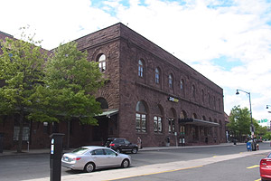 Hartford Union Station in May 2014